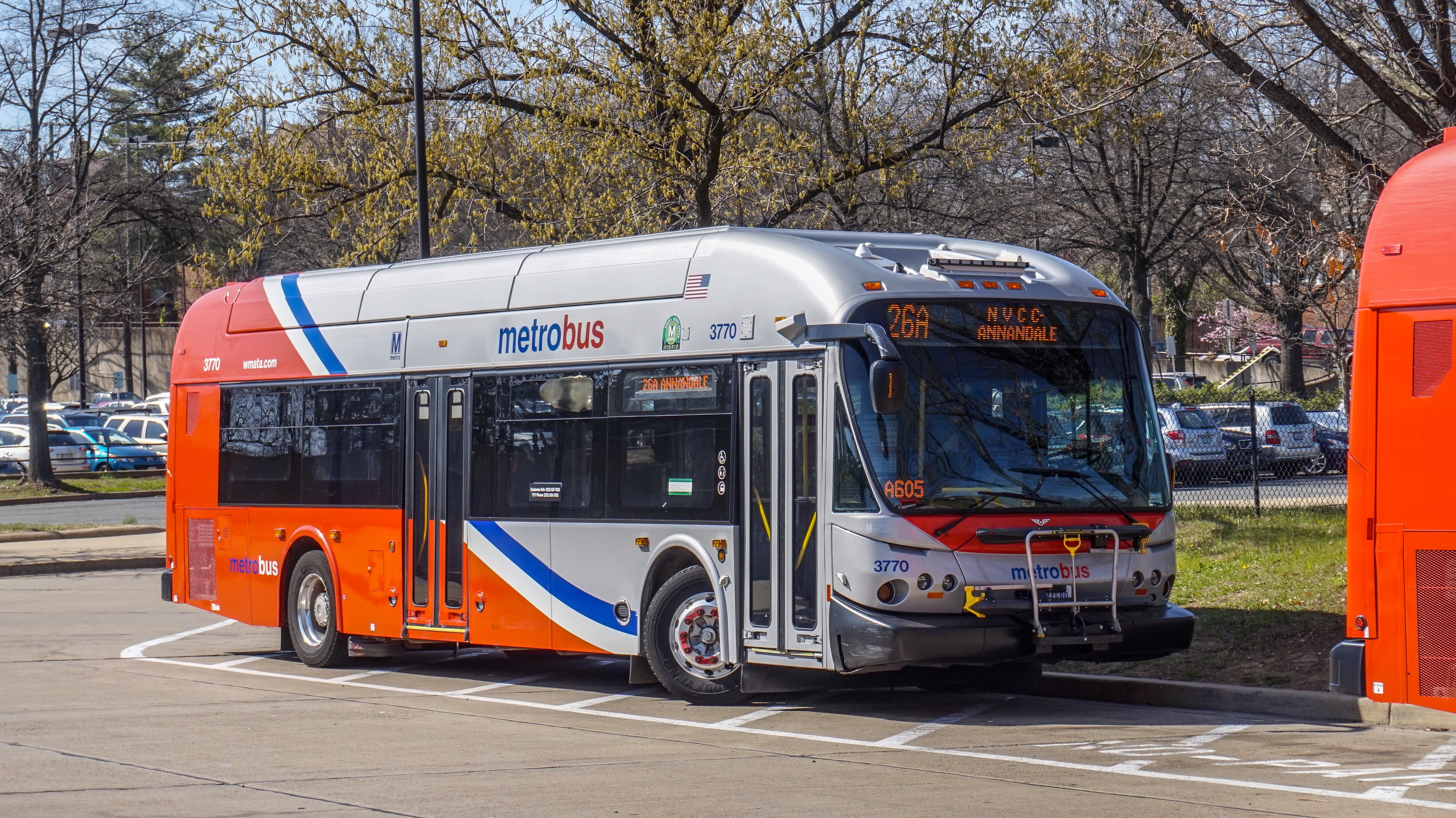 Here is WMATA 2009 New Flyer DE35LFA freshly Rehab at East Falls Church Station